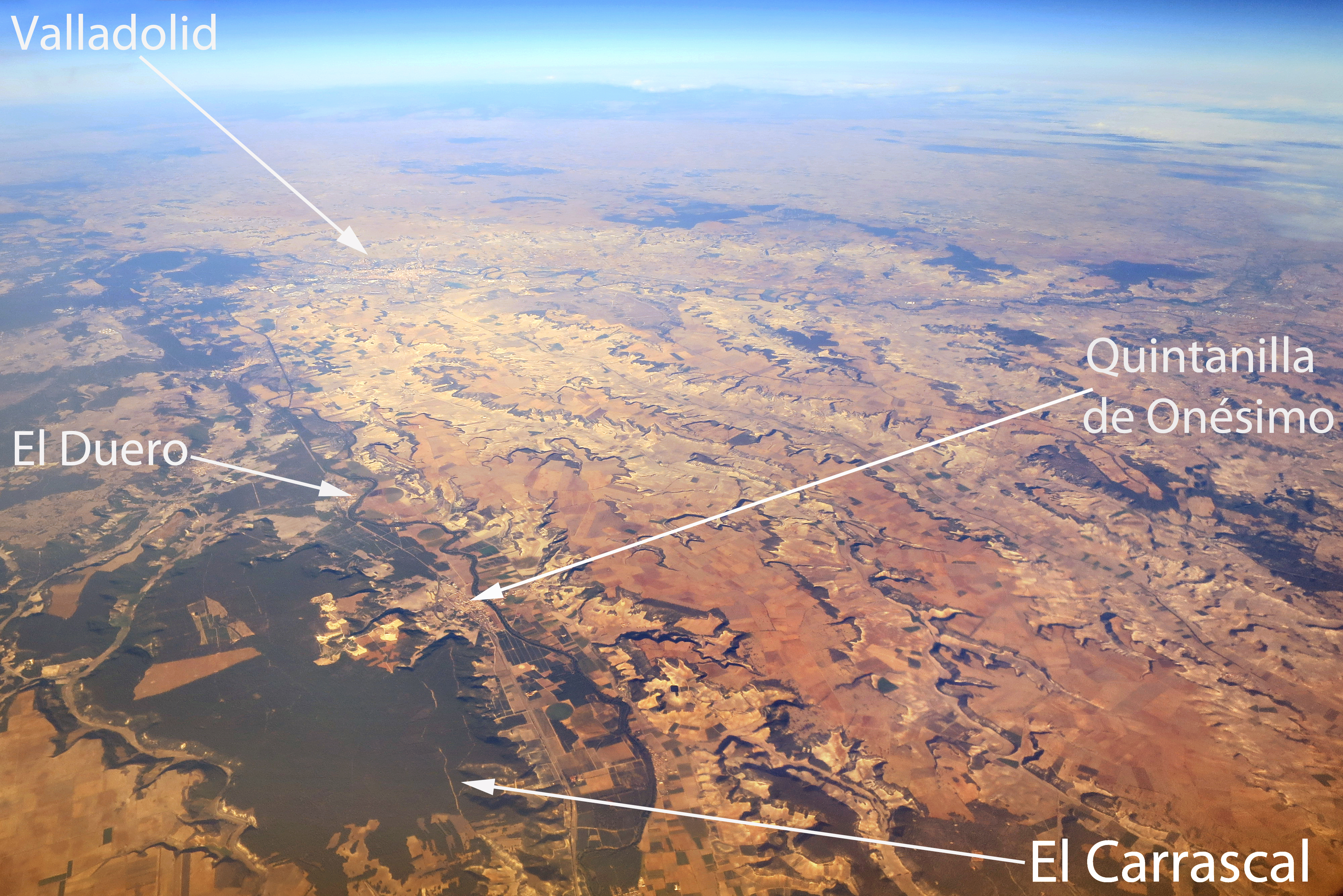 An aerial photo of the Carrascal nature reserve near Valladolid in the north of Spain.